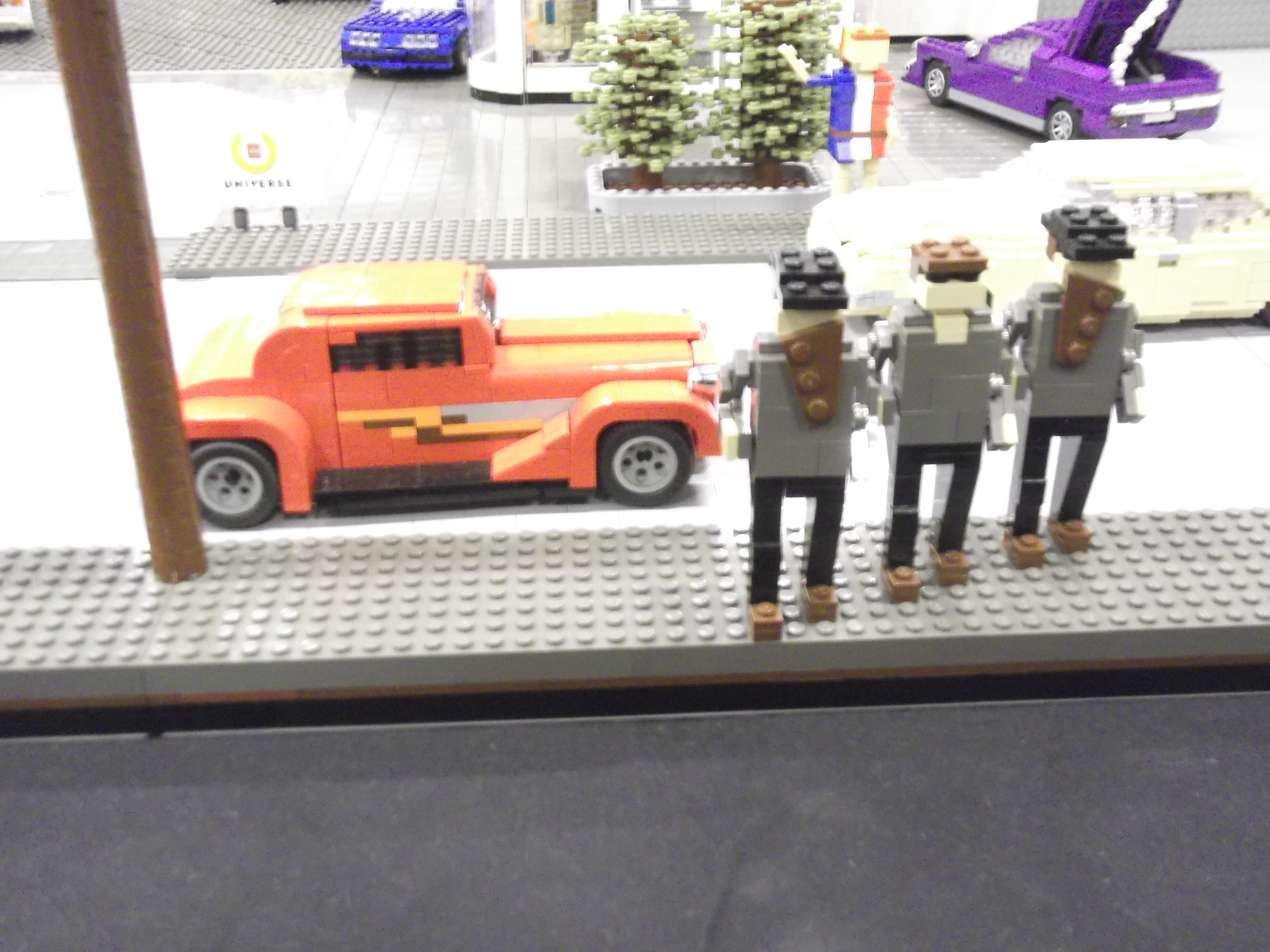 Lego World